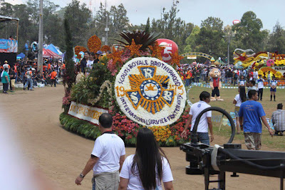 The Scouts Royale Brotherhood float during the flower festival of Baguio City (Panagbenga Festival)